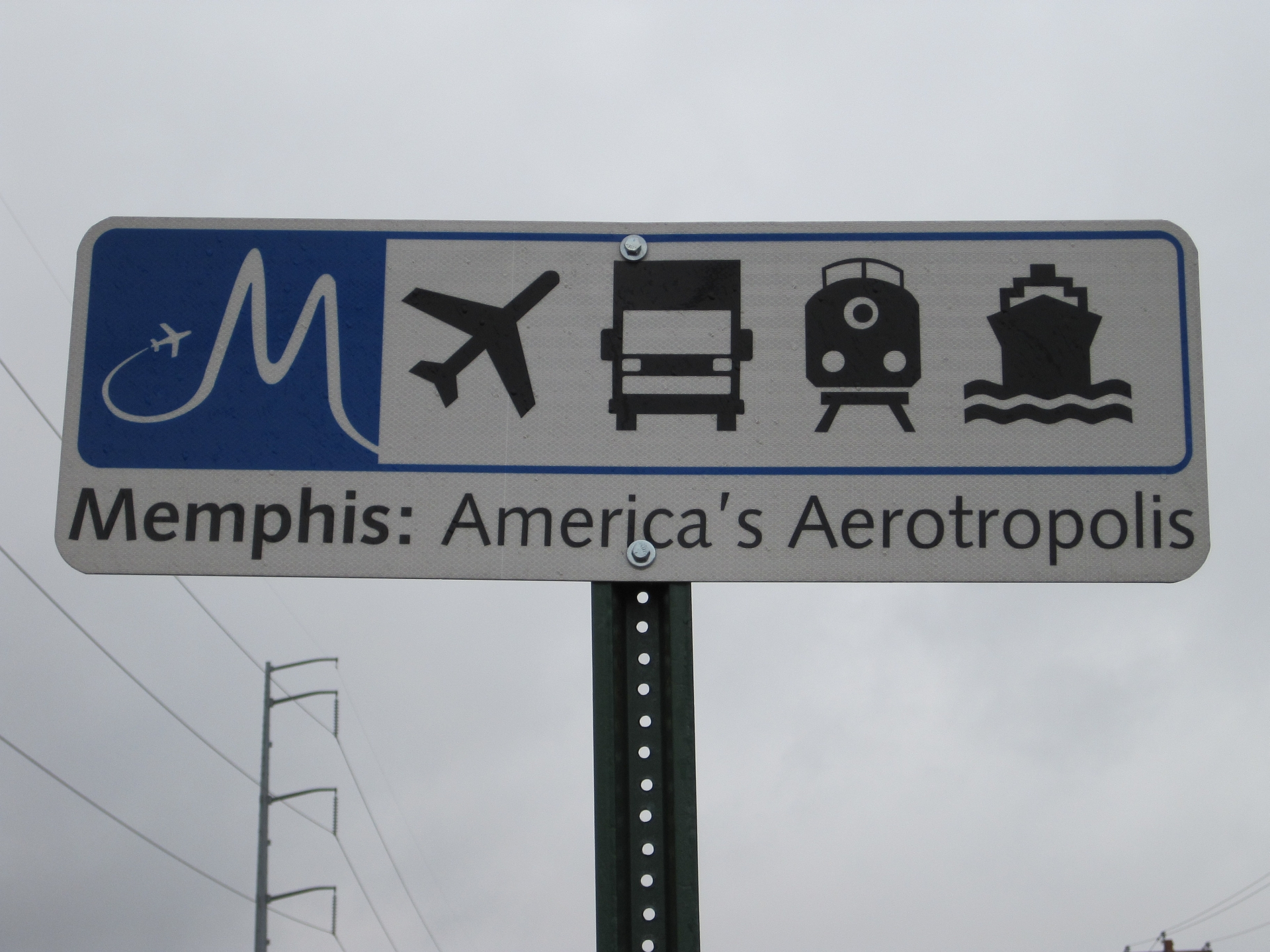 Memphis: America's Aerotropolis. Senn on E Shelby Drive just west of Lamar Avenue (US 78) in Memphis, Tennessee.